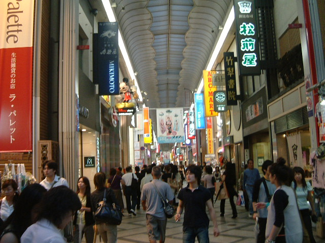 A crowd inside Shinsaibashi, a district in the Chūō-ku ward of Osaka, Japan and the city's main shopping area.